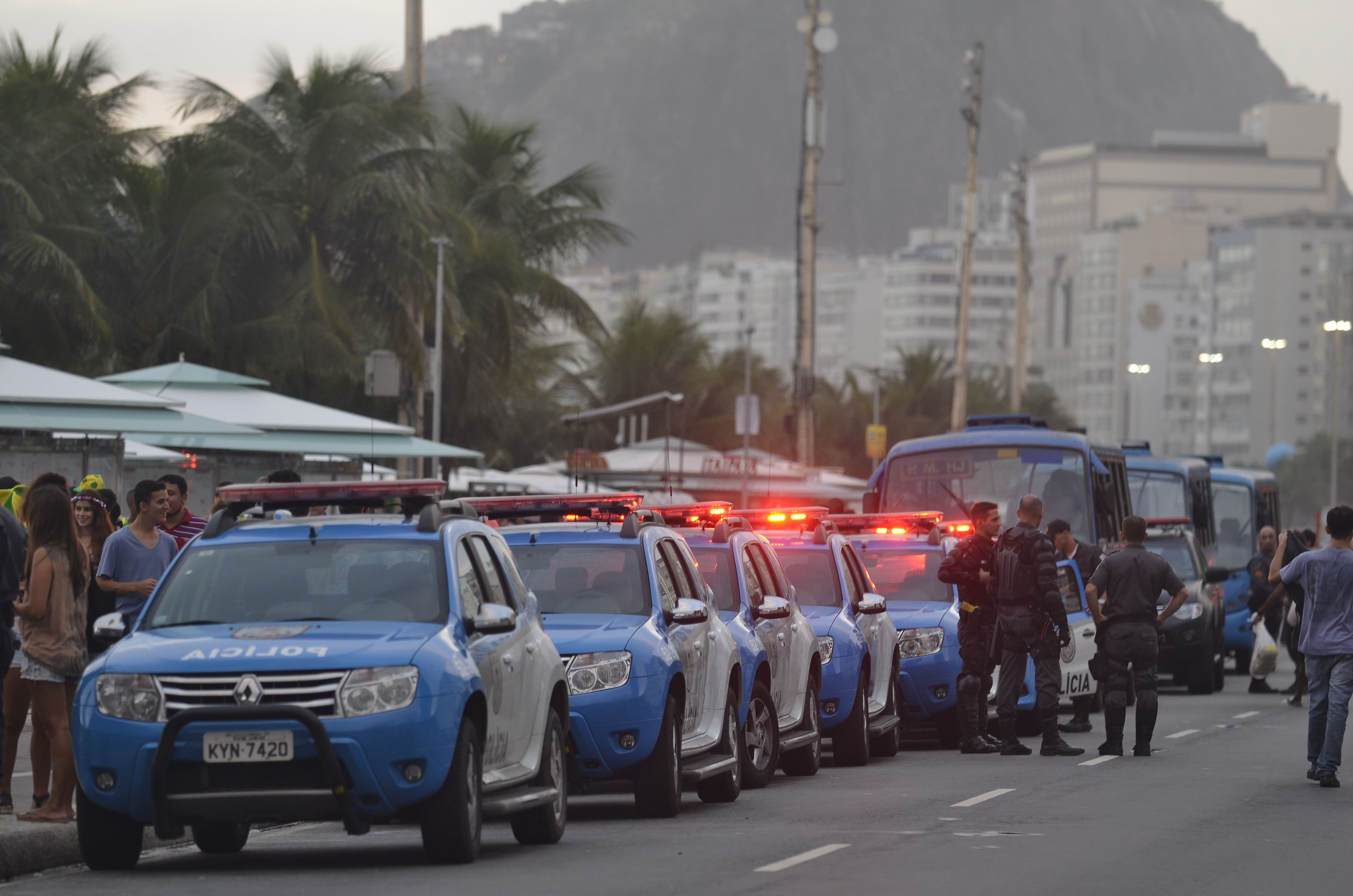 Protest against the World Cup in Copacabana (2014-06-12).